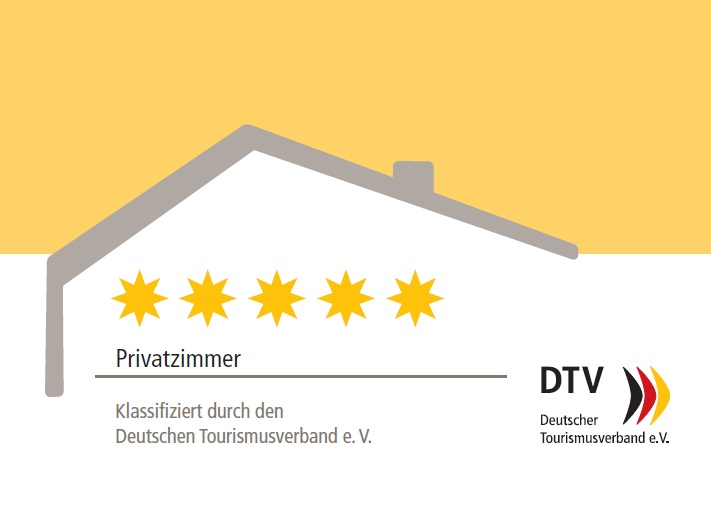 Klassifizierungsschild für Privatzimmer der Kategorie 5 Sterne (seit 2013)